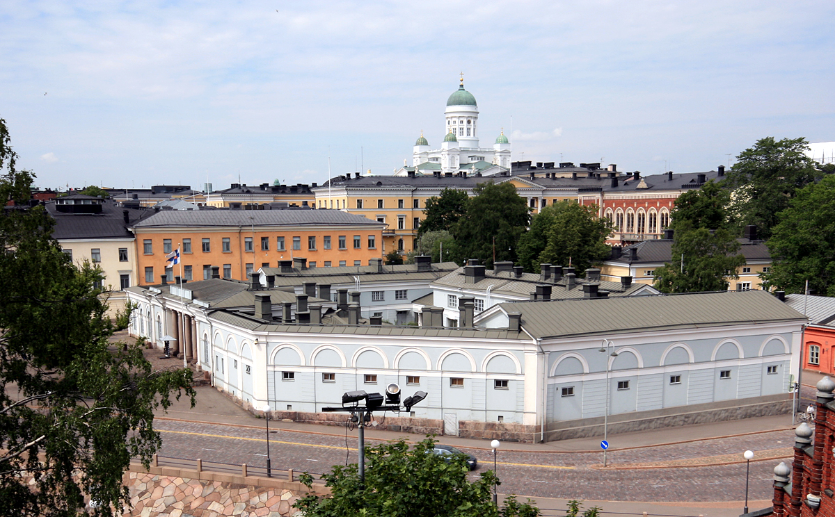 Main Guard Post in Helsinki, Finland. Architect: Carl Ludvig Engel. Built in 1840.